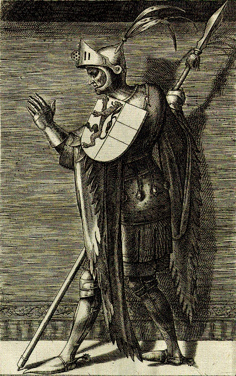 Godfrey IV, Duke of Lower Lorraine